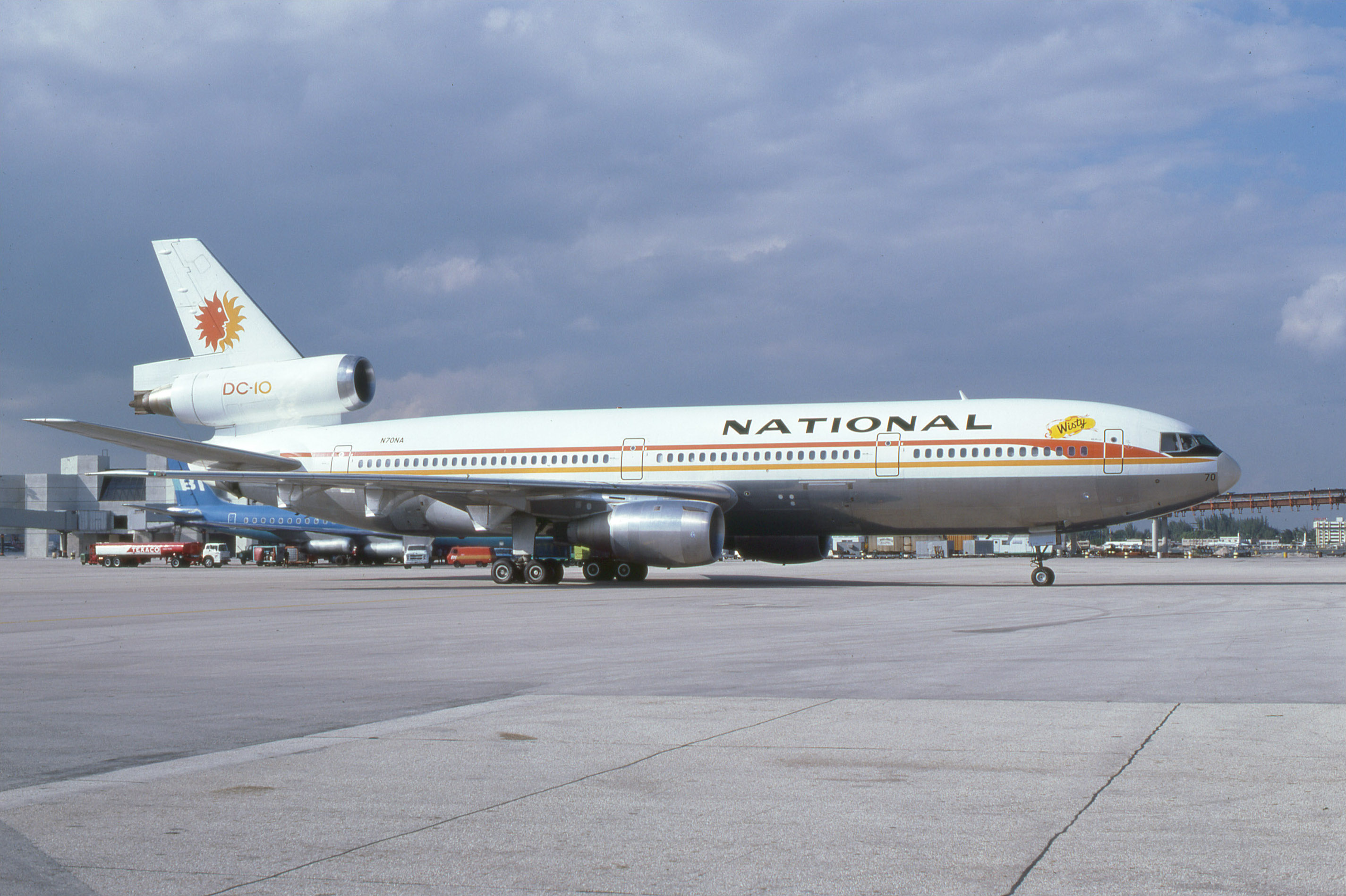 National DC-10-10 "Wisty"